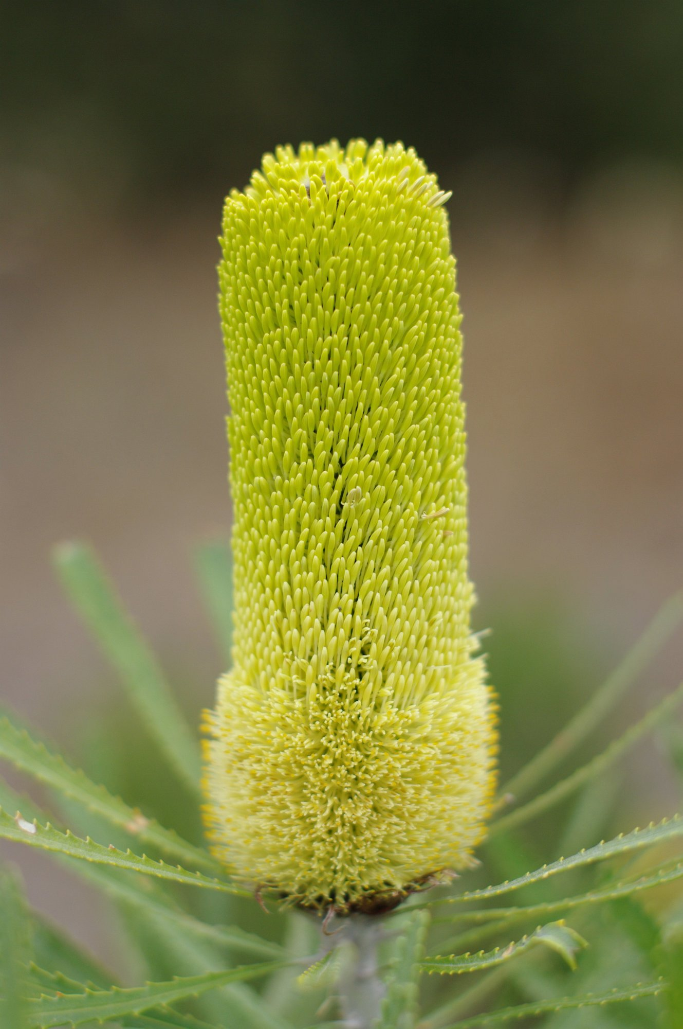 Banksia attenuata in Wireless hill reserve Booragoon Western Australia full spike with flowers part way thru Anthesis